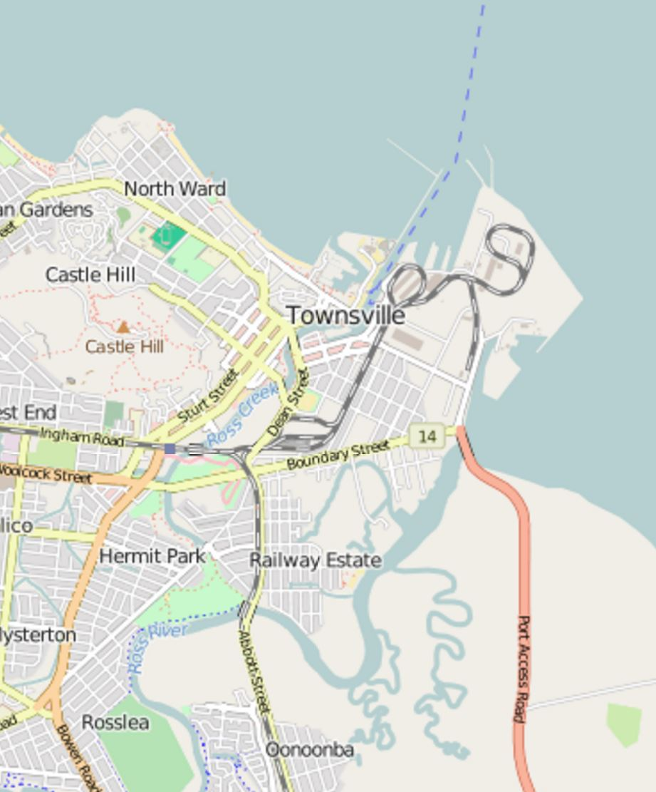 Open Street Map of Ross Island, Townsville, 2016